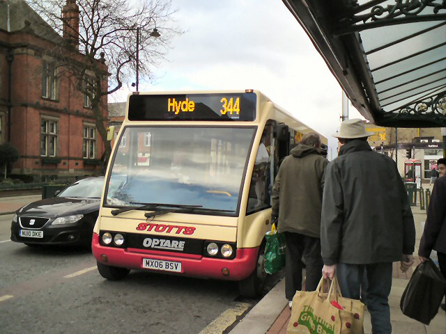 344 Bus, Data from Geograph: Description: A "Stotts of Oldham" Optare bus on the 344 Backbower circular route picking up passengers at the heritage bus stop by Hyde Market opposite the Town Hall. Stotts took over the route a few days earlier following the collapse... more ICBM: 53.451013851635, -2.0794662050061 Location: (about 1 km from) near to Hyde, Tameside, Great Britain.